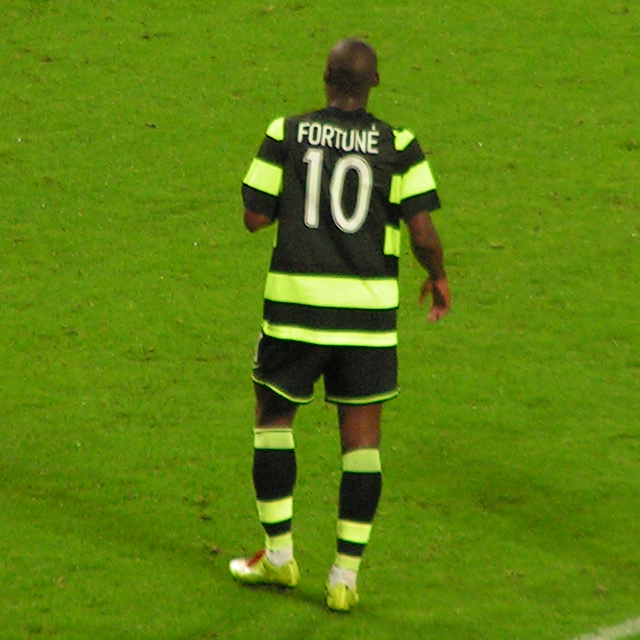 Last match by Jean-Antoine Fortuné for Celtic against FC Utrecht